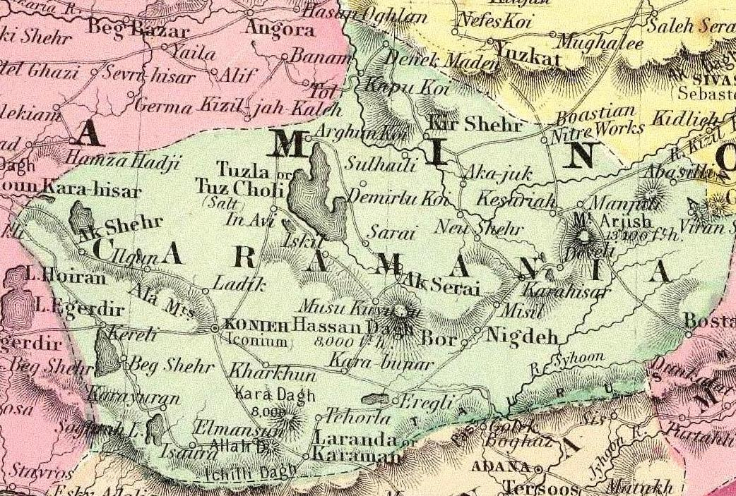 Turkey In Asia And The Caucasian Provinces Of Russia. Published By J.H. Colton & Co. No. 172 William St. New York. Entered ... 1855 by J.H. Colton & Co. ... New York. No. 25